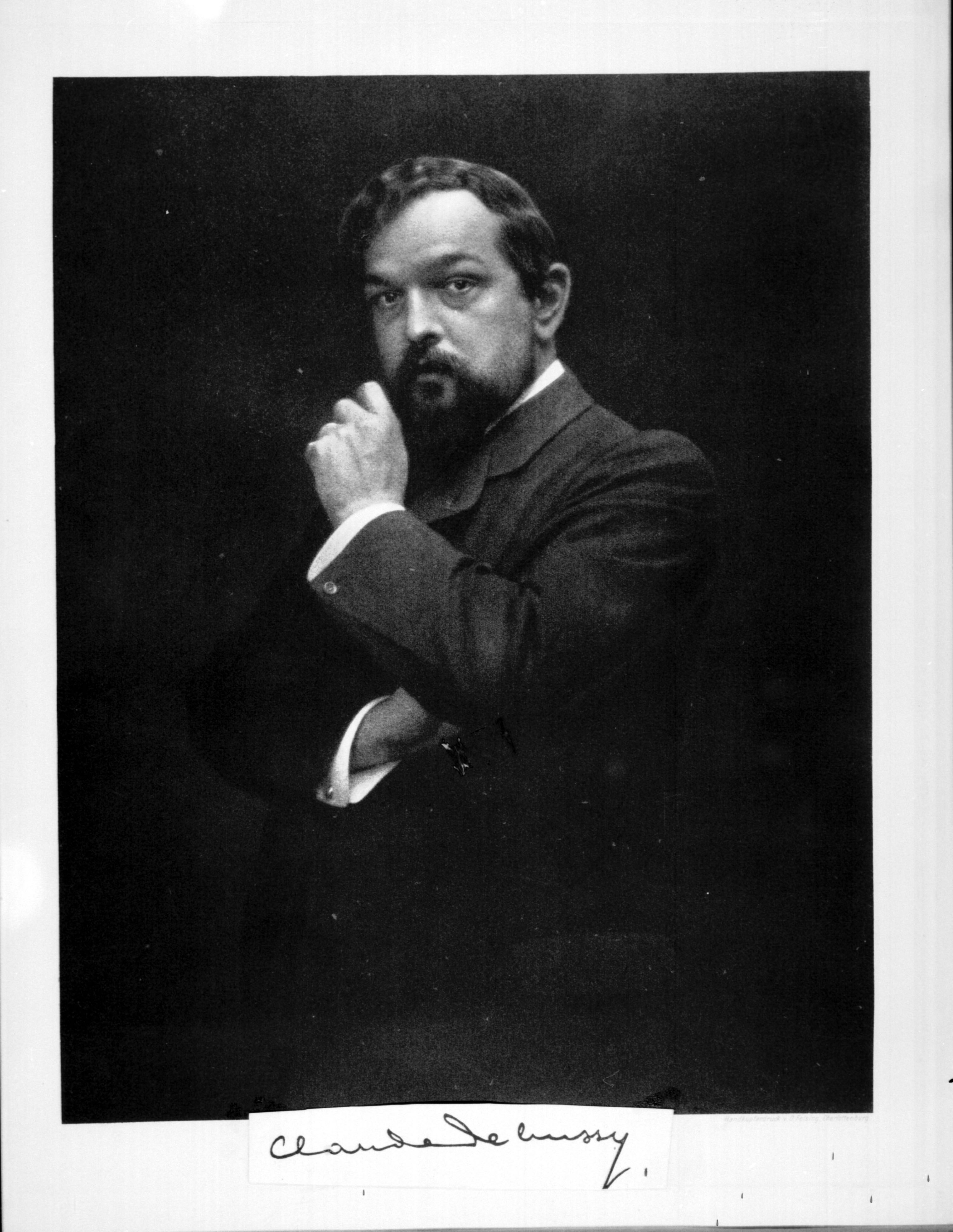 Claude Debussy portrait